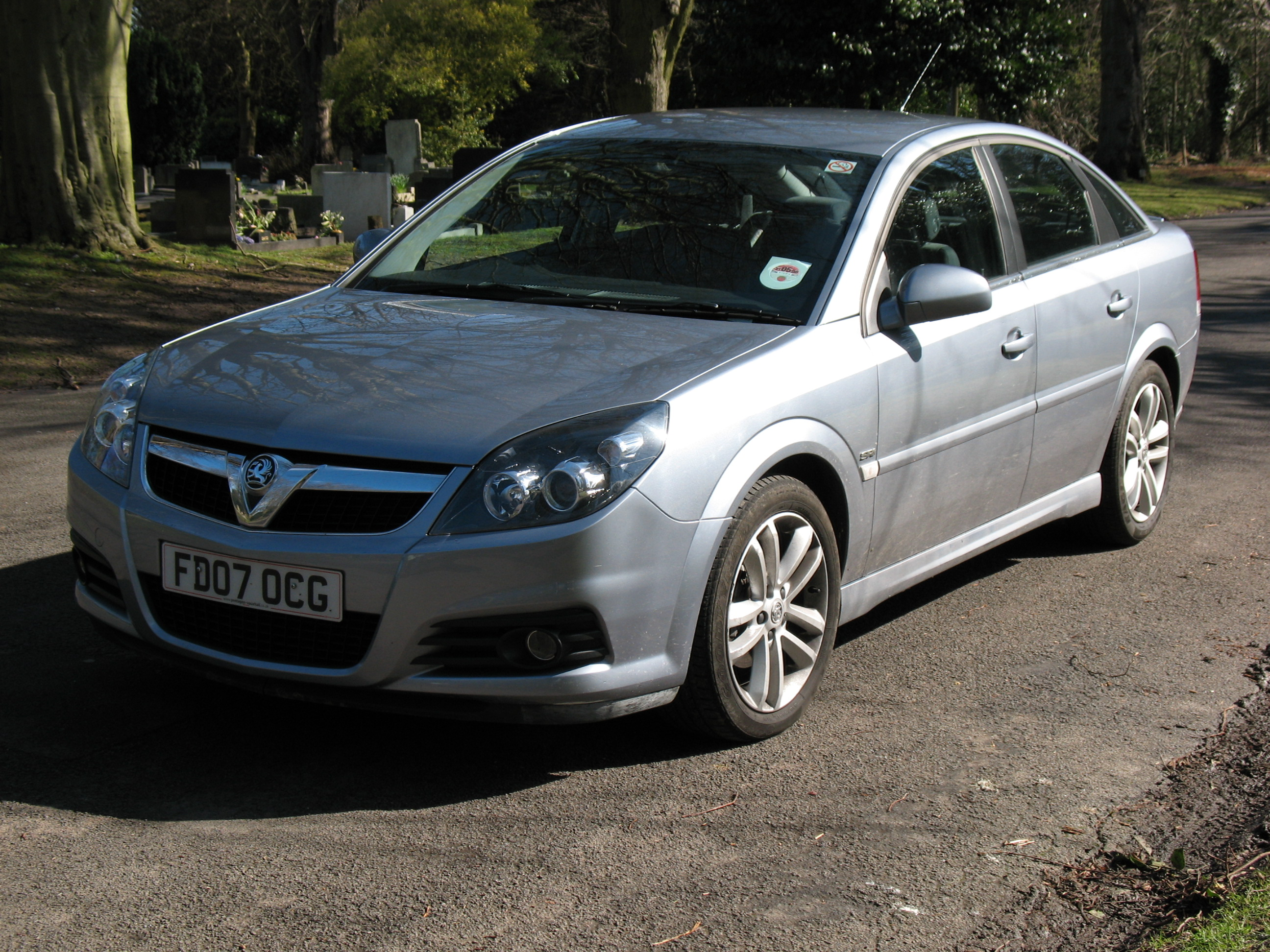 2005–2008 Vauxhall Vectra hatchback, photographed in the United Kingdom.